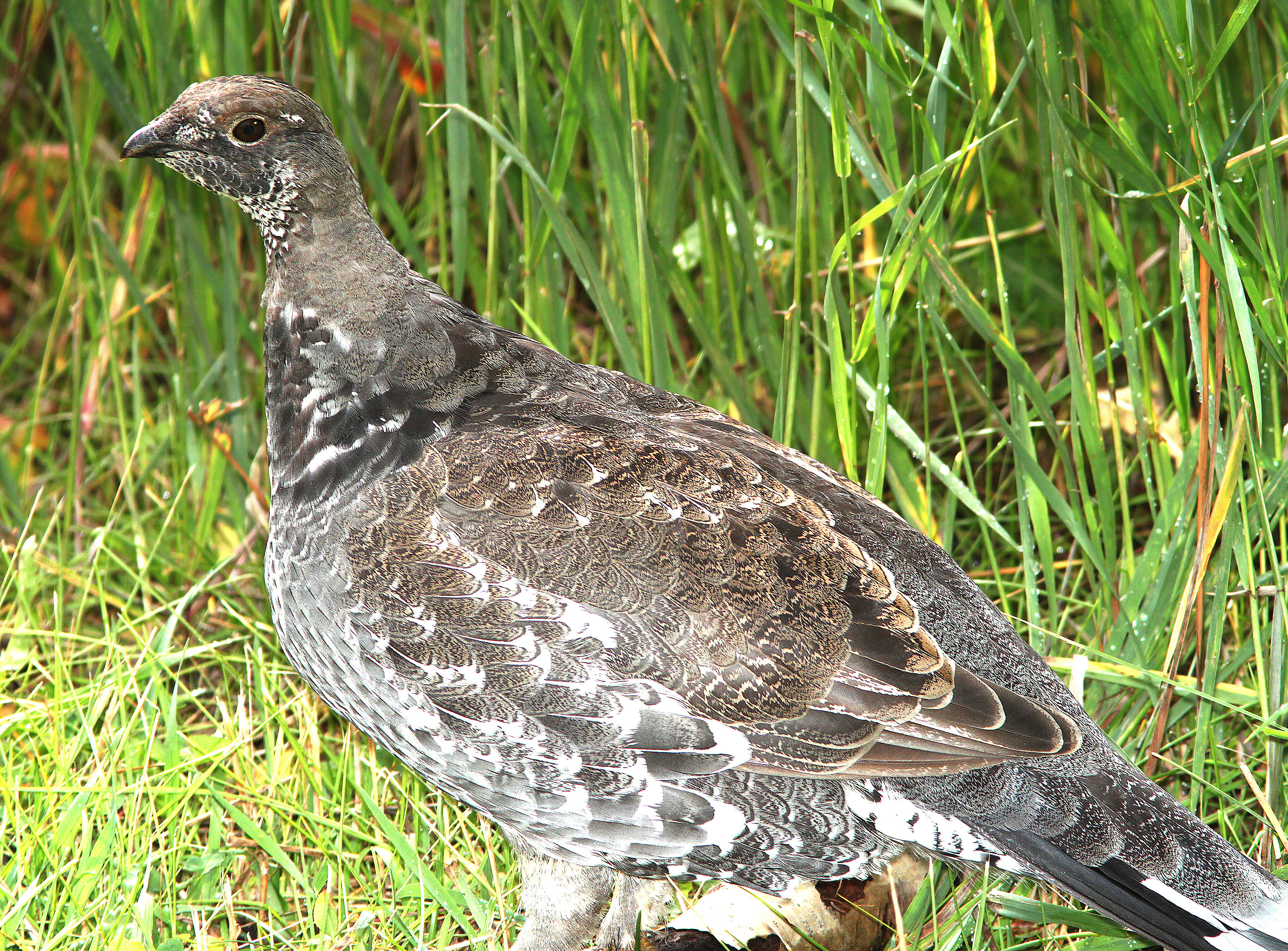 ABA AREA BIRDS: My Photo "Life List"